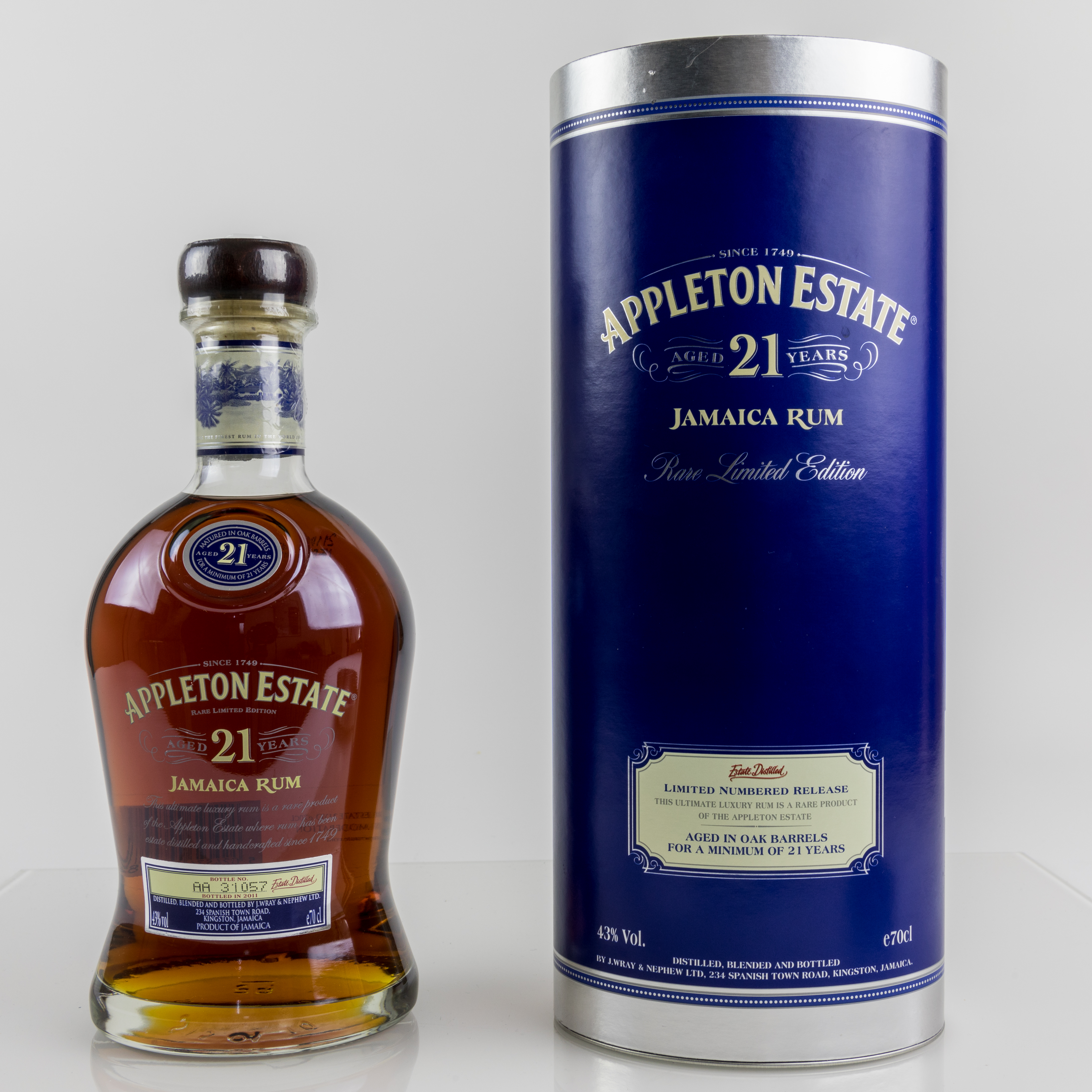 Appleton Estate Aged 21 Years (bottled 2011)